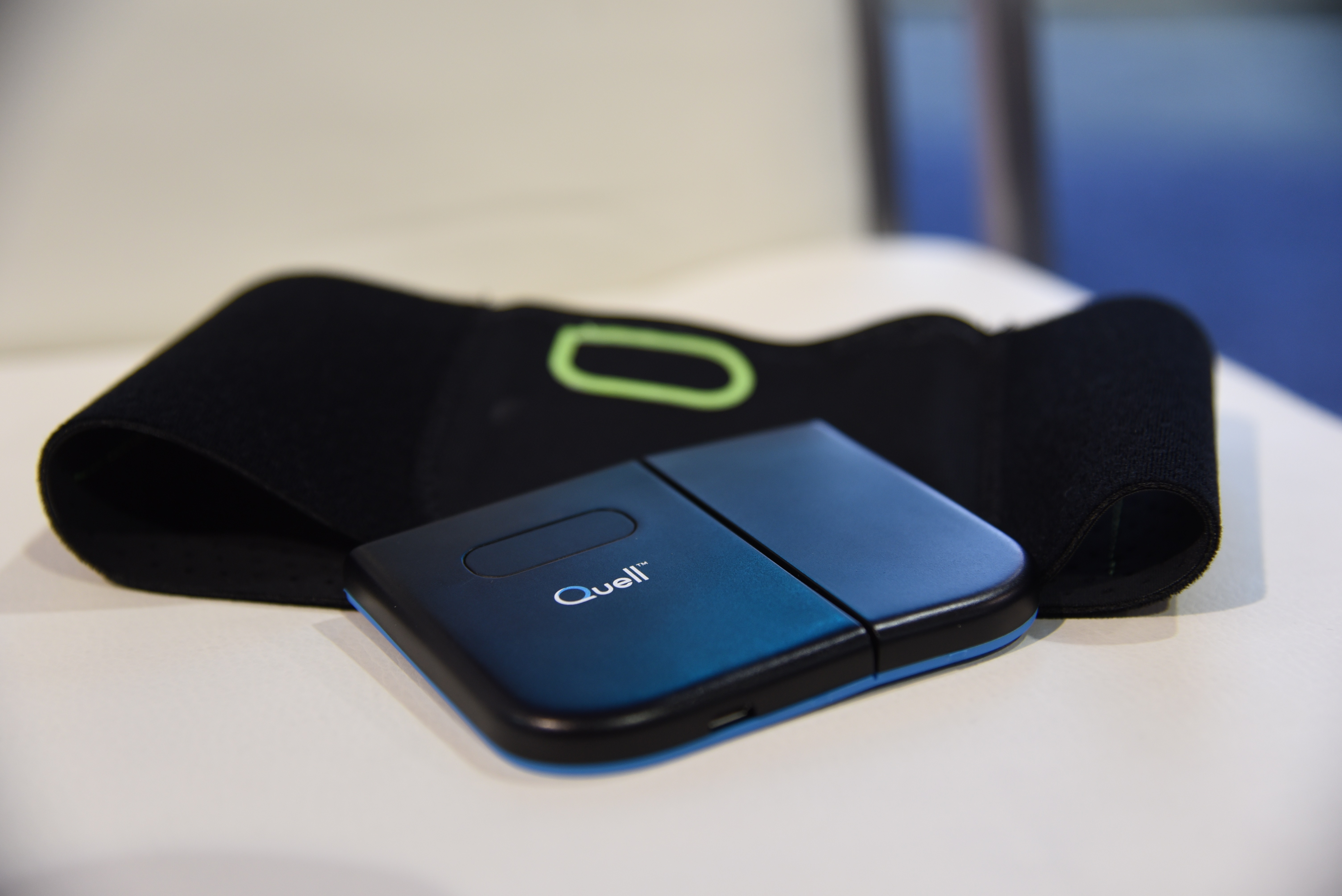 The Quell wearable device, taken at the Consumer Electronics Show 2016, in Las Vegas